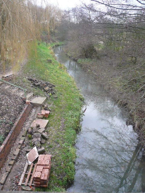 River Doe Lea